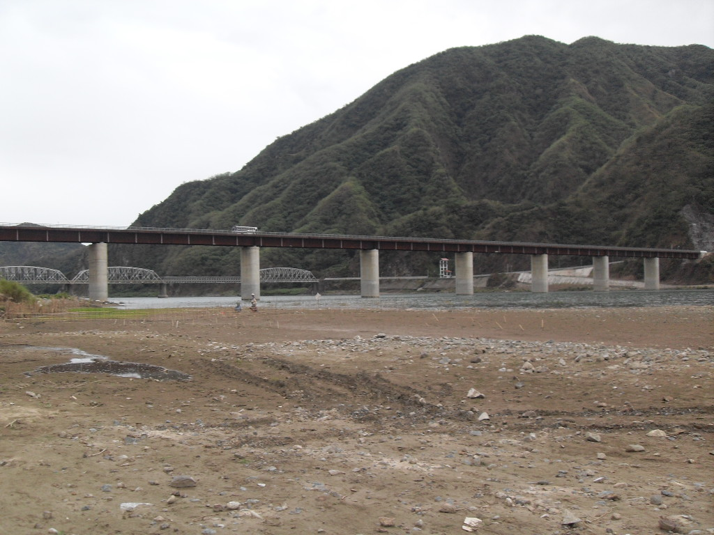 The new bridge.